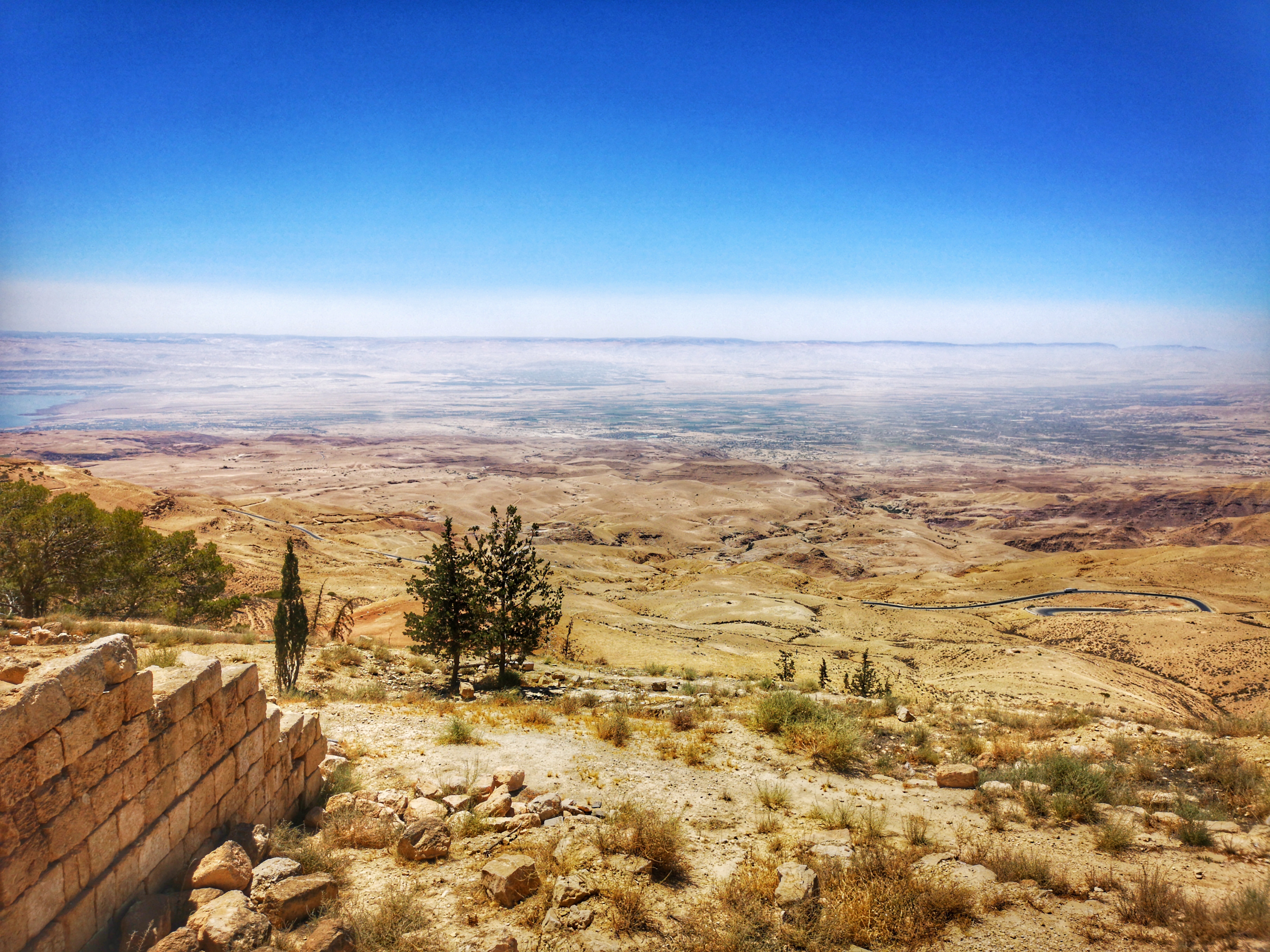 According to biblical tradition, Moses viewed the Promised Land from Mount Nebo though he did not enter. Here is the view of the Dead Sea and Jericho area from Mount Nebo as Moses would have viewed it.